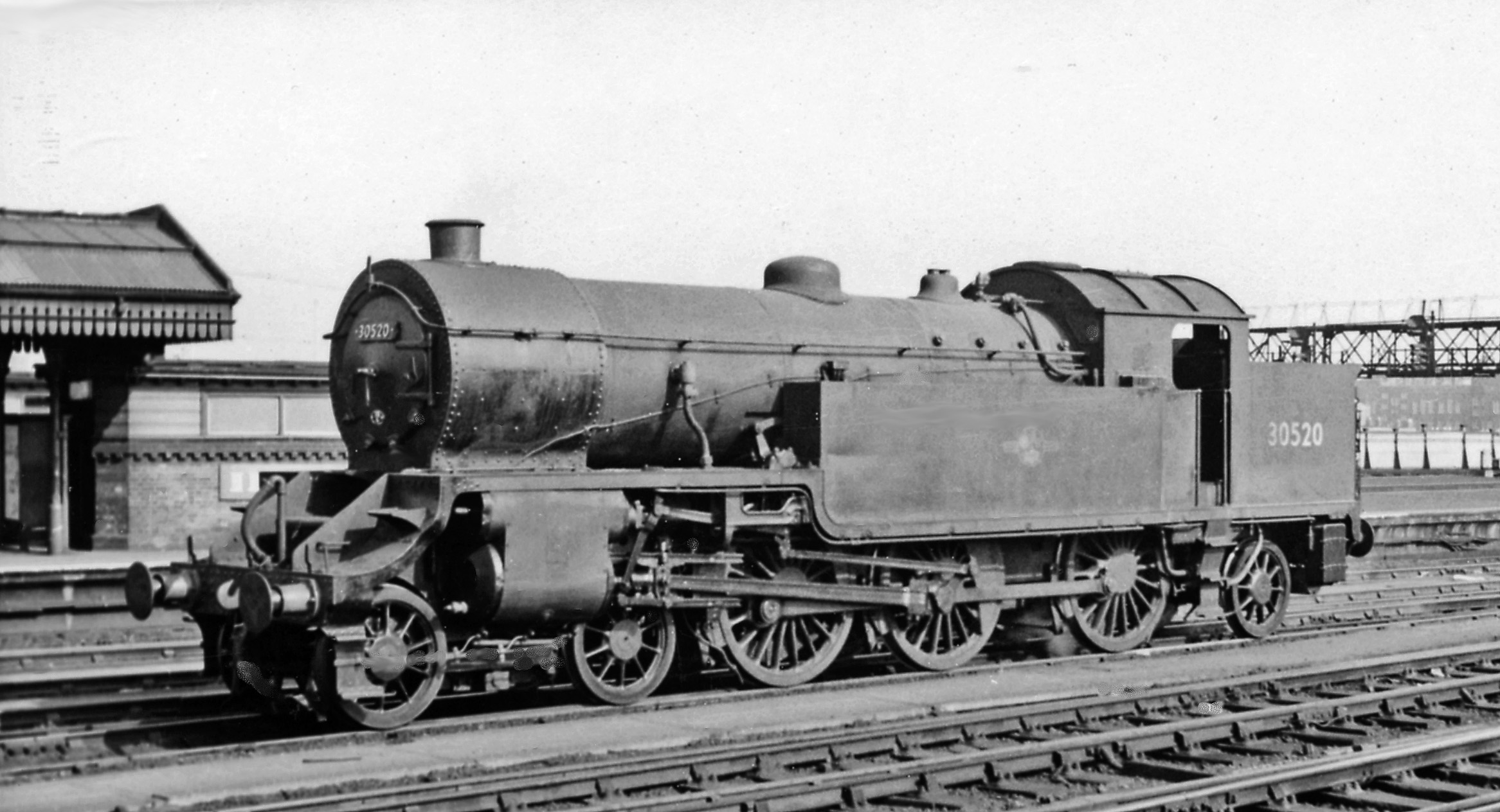 Ex-LSW 4-6-2T at Clapham Junction. View northward from London end of main-line platforms across to Windsor line platforms: ex-LSW and LB&SC major junction. In between are the 49 sidings of the Carriage Depot. Ex-LSW Urie H16 class 4-6-2T No. 30520 (built 2/22, withdrawn 11/62) is on empty stock duty.